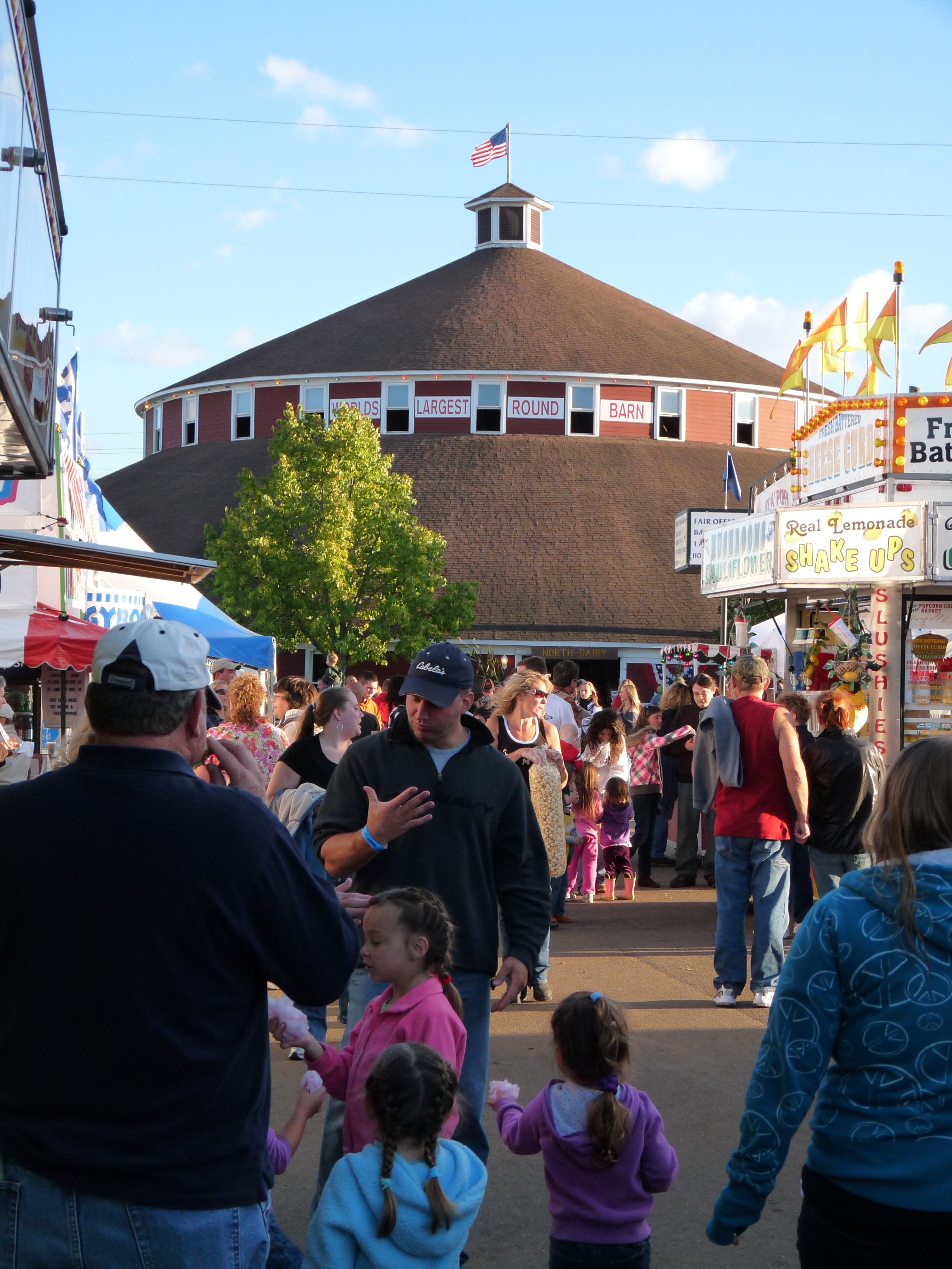 Central Wisconsin State Fair, with world's largest round barn in background.